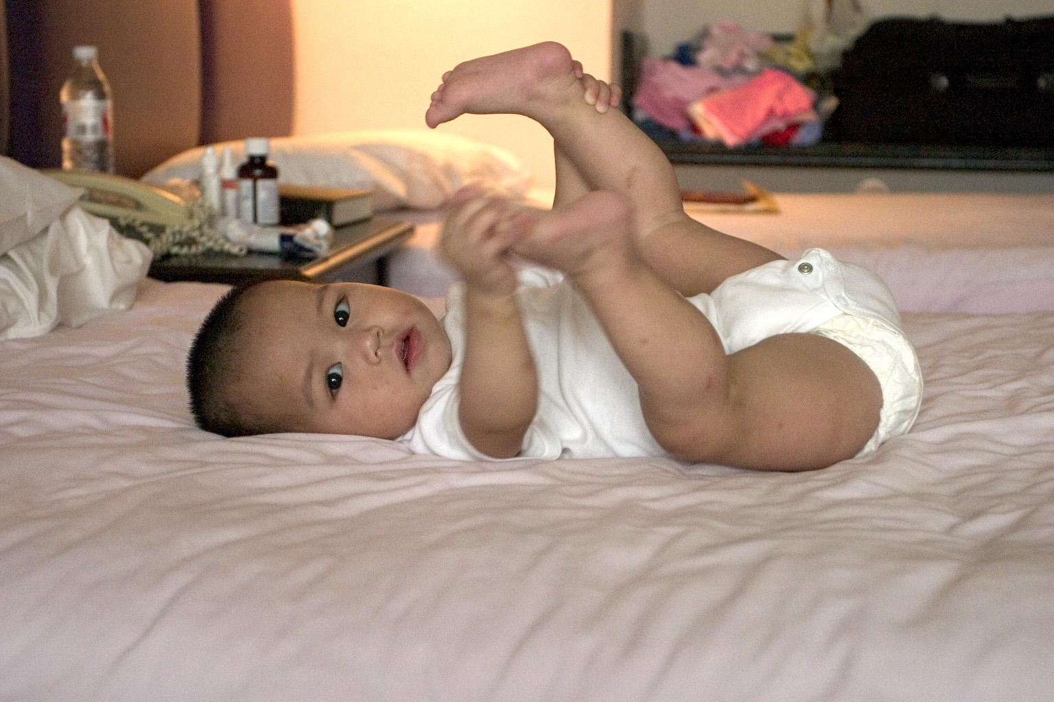 Baby holding feet on bed, China